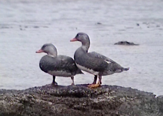 Fuegian Steamer Duck (Tachyeres pteneres) in the Beagle Channel.